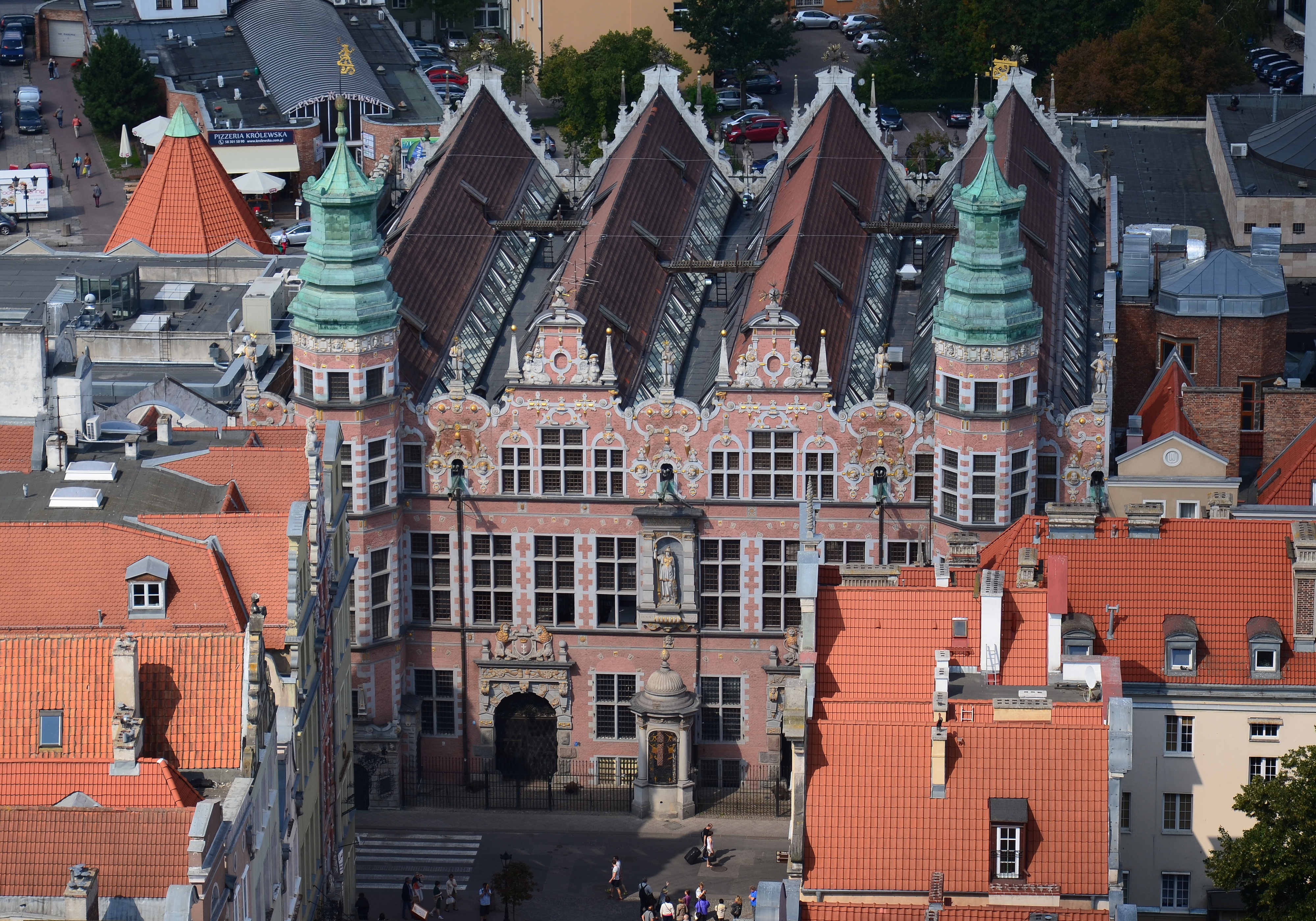 Gdańsk, Great Armoury